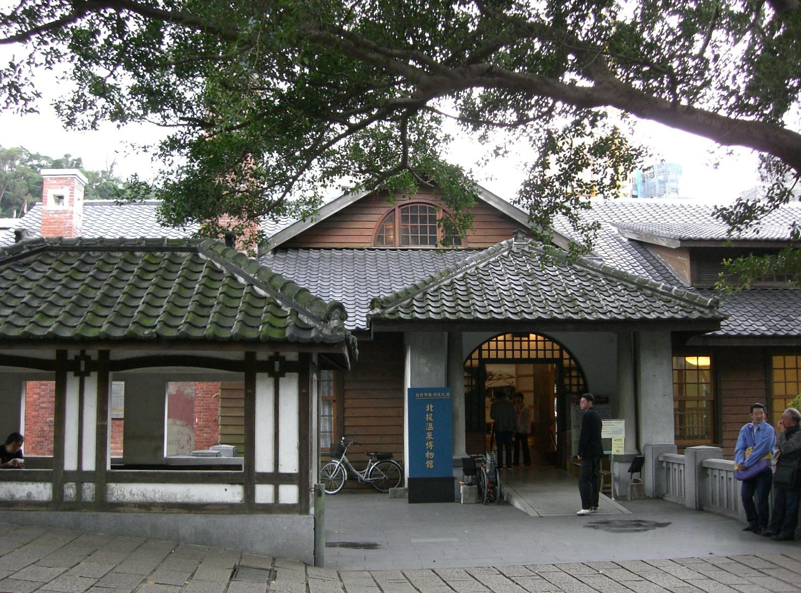 Beitou Hot Spring Museum in Taiwan